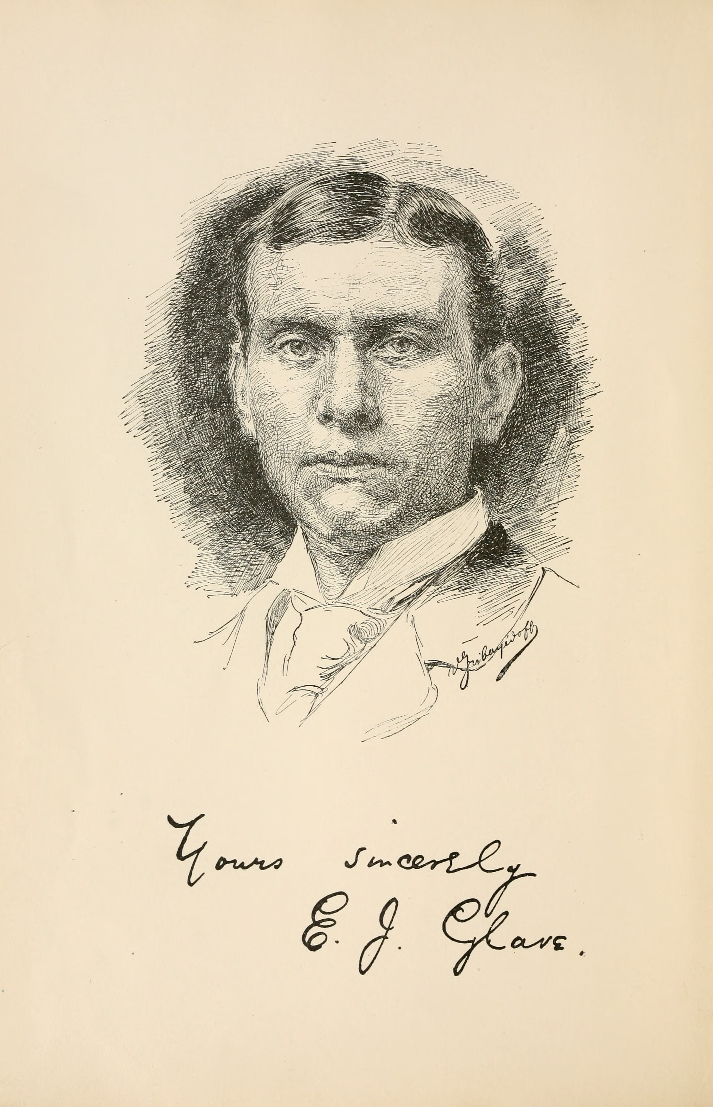 Portrait of Edward James Glave